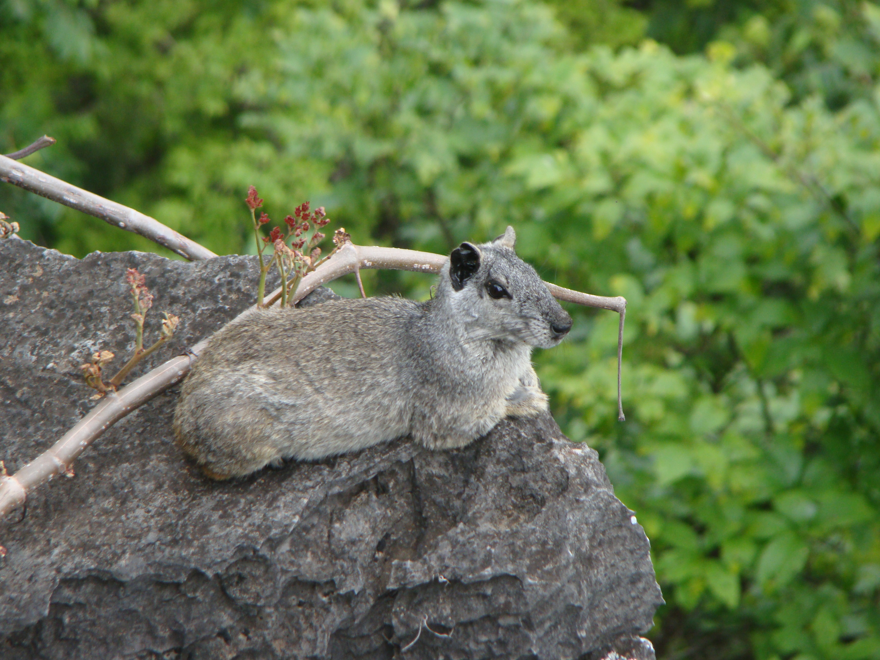 Kerodon acrobata from Monte Alegre de Goiás, Brazil.